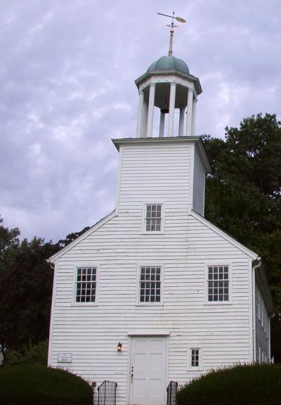 Academy in Branford, site where Yale University was founded